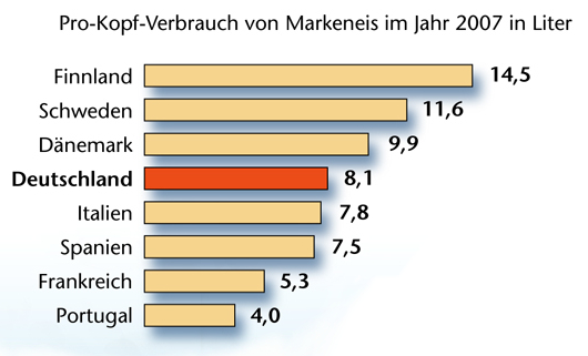 Information graphics: per-capita-consumption of ice cream in different European countries.